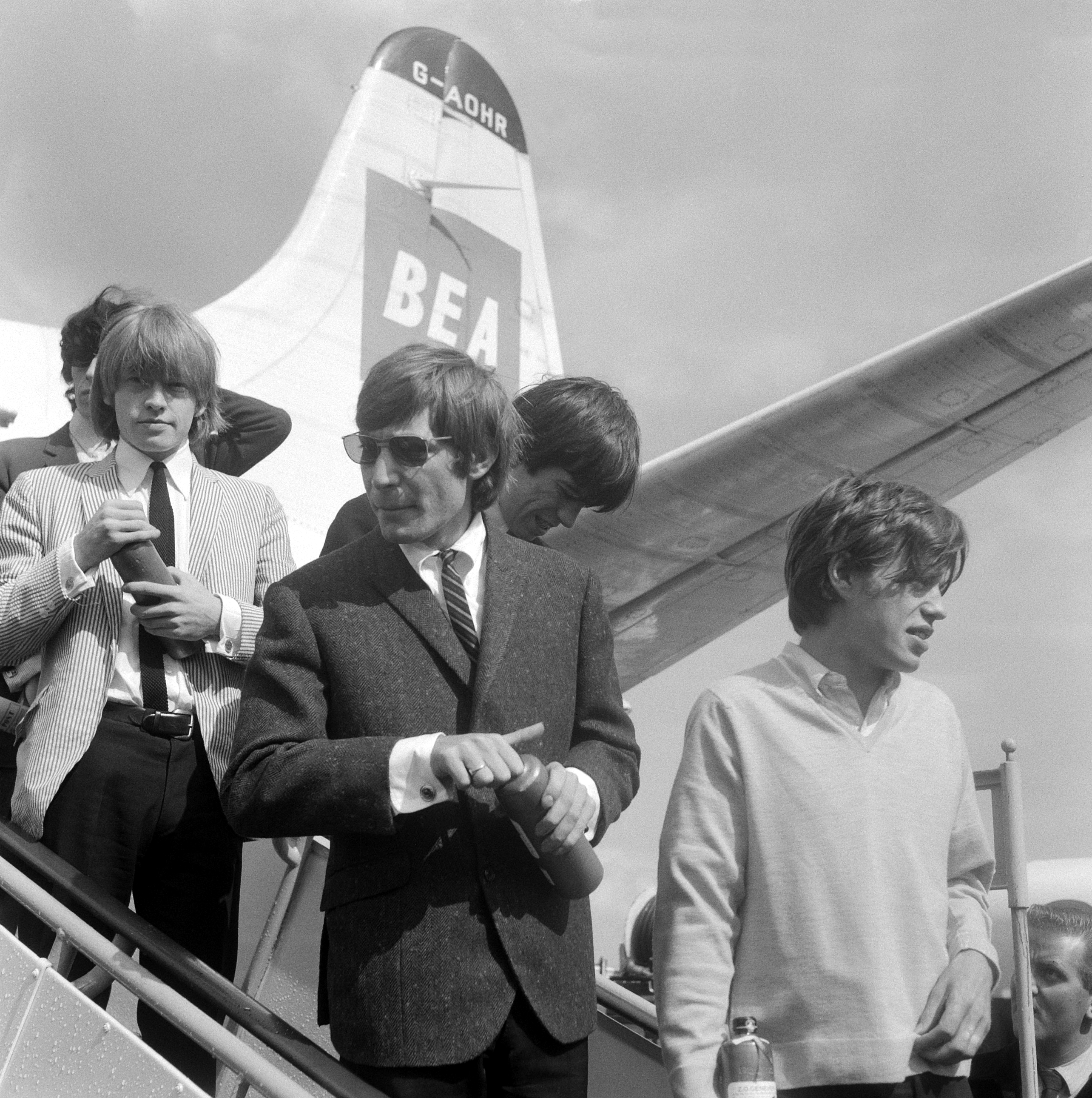 The Rolling Stones getting off an airplane at Amsterdam Airport Schiphol on August 8, 1964. This is a retouched (removed scratches, spots and a sticker, adjusted colors) version of the image from the Nationaal Archief.